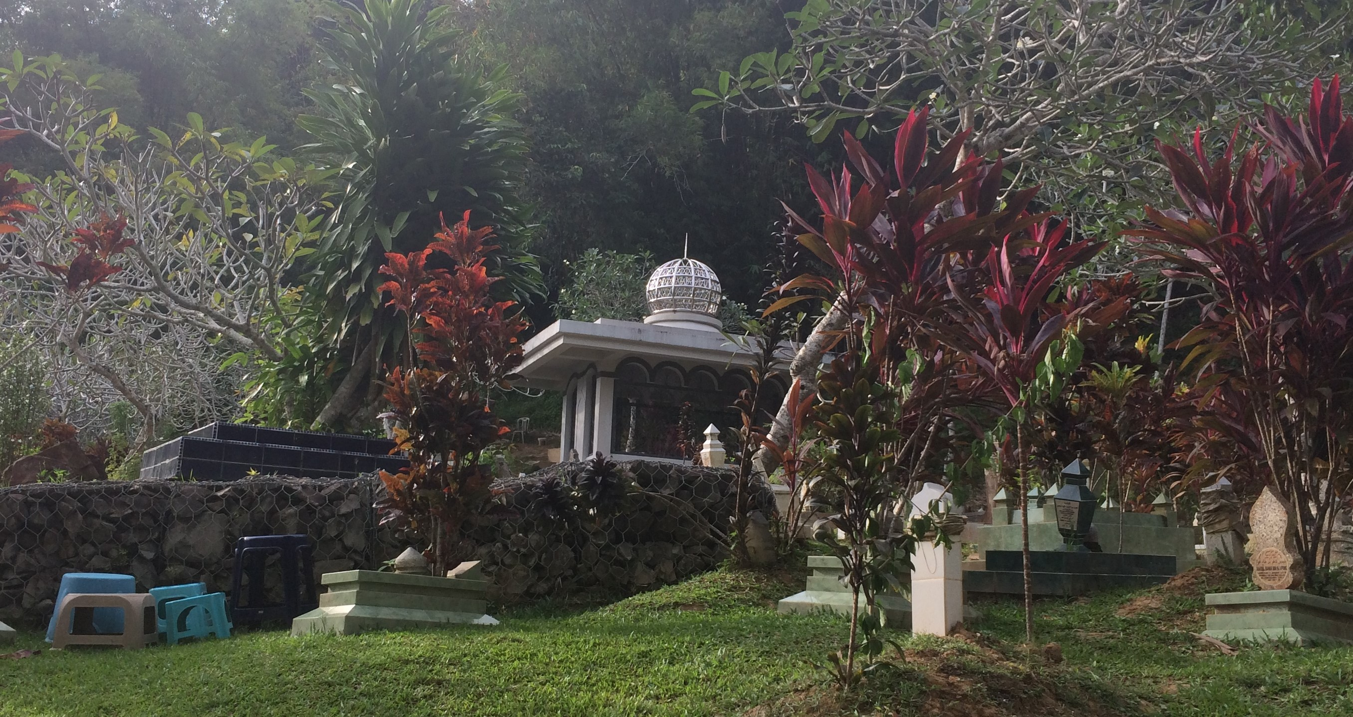 The mausoleum (dome) of Sultan Omar Ali Saifuddin I at Kubah Makam Di Raja, Bandar Seri Begawan.